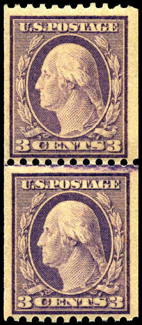 United States 3c coil stamp of 1917, line pair